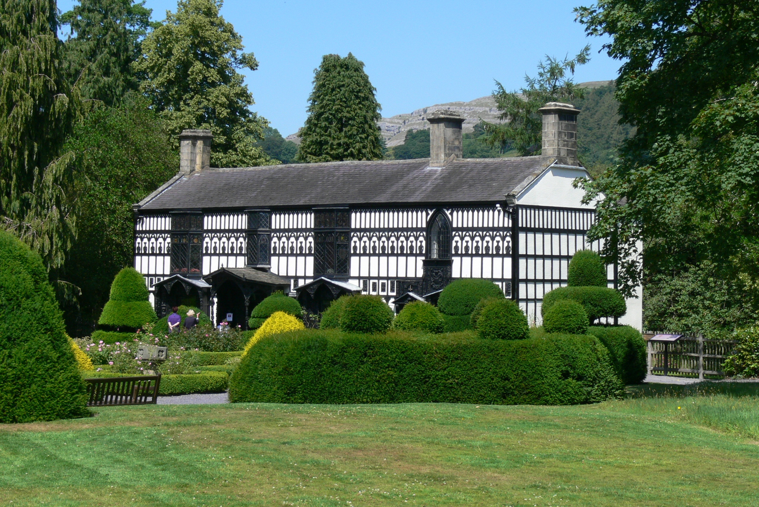 Plas Newydd ( Llangollen/Wales ). House and gardens.